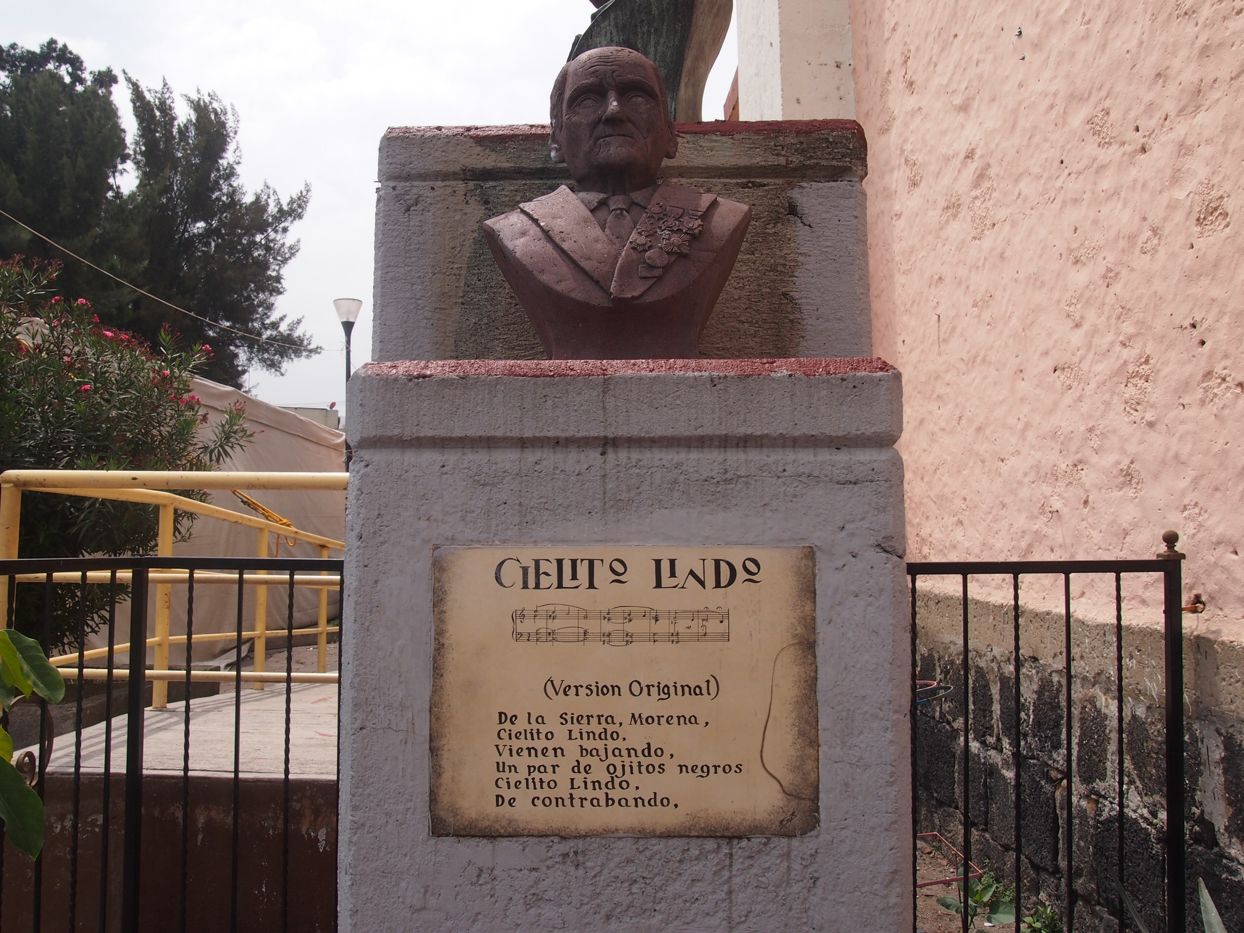 Quirino Mendoza y Cortés, Composer of Cielito Lindo song, Statue in front of Palacio Municipal Tulyehualco